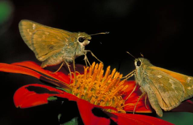 Hesperia leonardus leonardus (Leonard's skipper butterfly) on Mexican sunflower